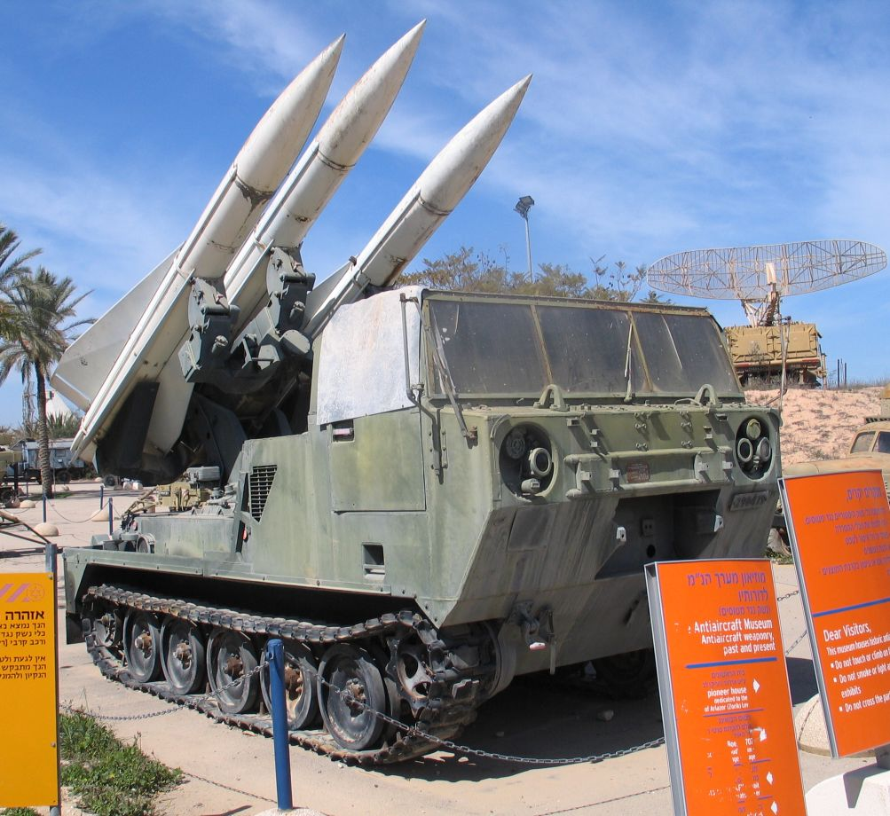 Description: M727 Guided Missile Equipment Carrier (Hawk) at Muzeyon Heyl ha-Avir, Hatzerim, Israel. 2006. Source: Photo by me, User:Bukvoed.